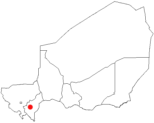 Dosso, Niger Location Map; created with the GIMP. Made by User:Acntx.